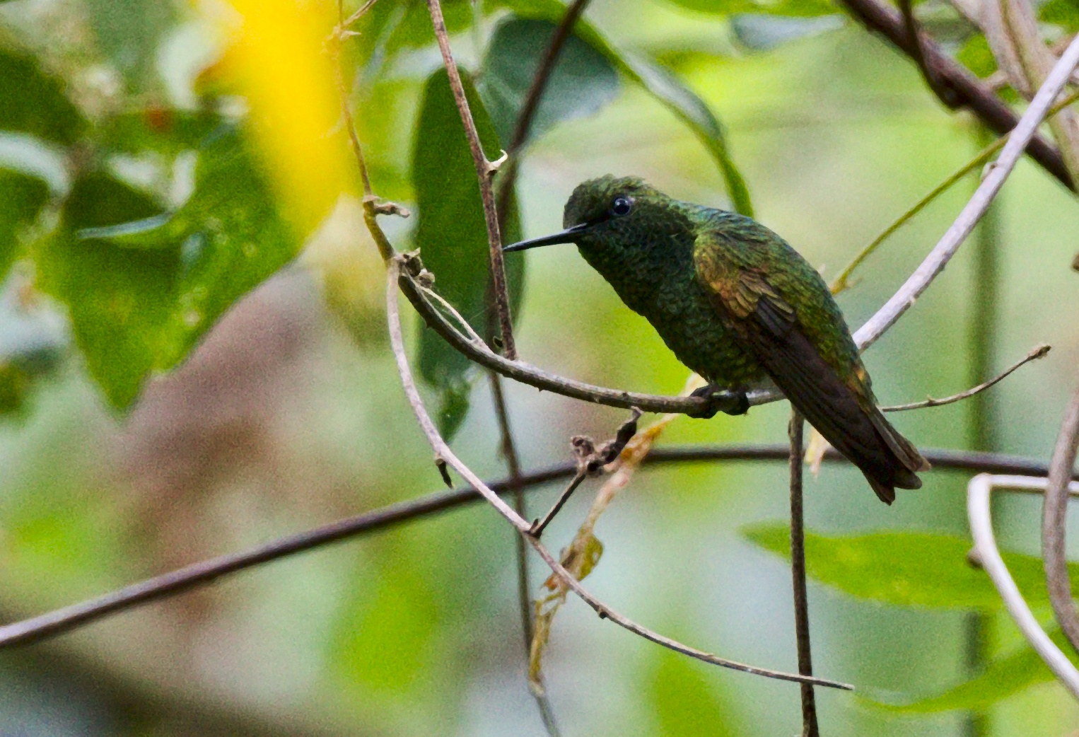 Coppery Emerald perched bird at El Dorado Natural Reserve Cuchilla San Lorenzo